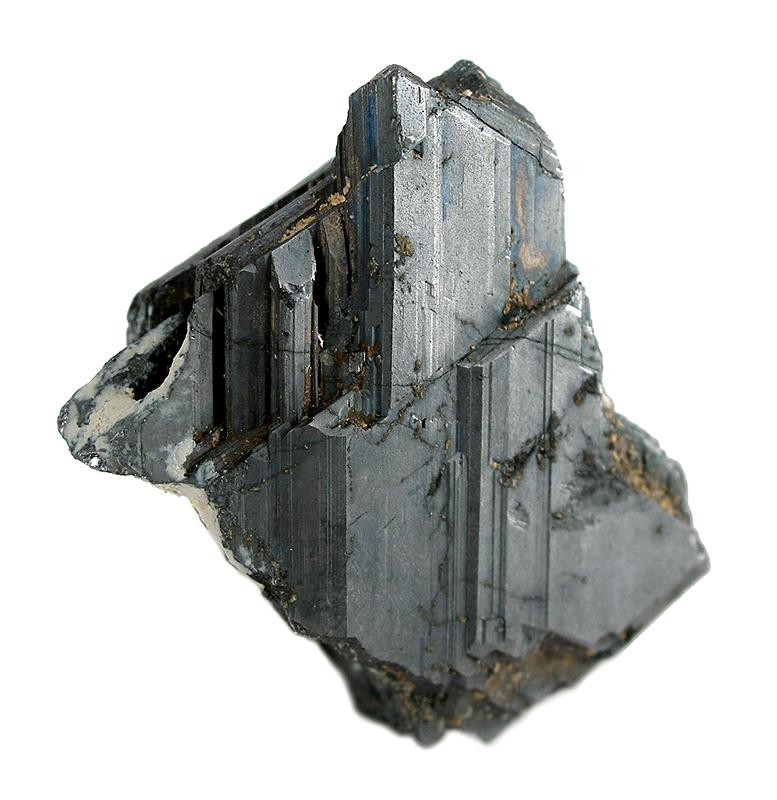 Geocronite Locality: Pollone mine, Valdicastello Carducci, Pietrasanta, Apuan Alps, Lucca Province, Tuscany, Italy (Locality at ) Size: 2.7 x 2.4 x 1.3 cm. This is a VERY rare lead sufosalt with moderately large crystals. The color is battleship gray, with a satiny luster. The crystals are foliated in parallel growth, much like mica. This species is not often seen in dealers stocks or even in museums. I am told it was collected prior to 1840.